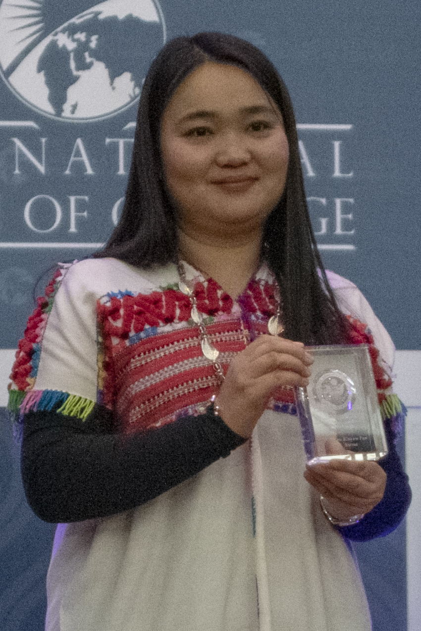 U.S. Secretary of State Michael R. Pompeo and First Lady of the United States Melania Trump present Naw K’nyaw Paw from Burma with the 2019 International Women of Courage (IWOC) Award during the ceremony at the U.S. Department of State in Washington, D.C., on March 7, 2019. [State Department photo by Ron Pryzsucha/ Public Domain]